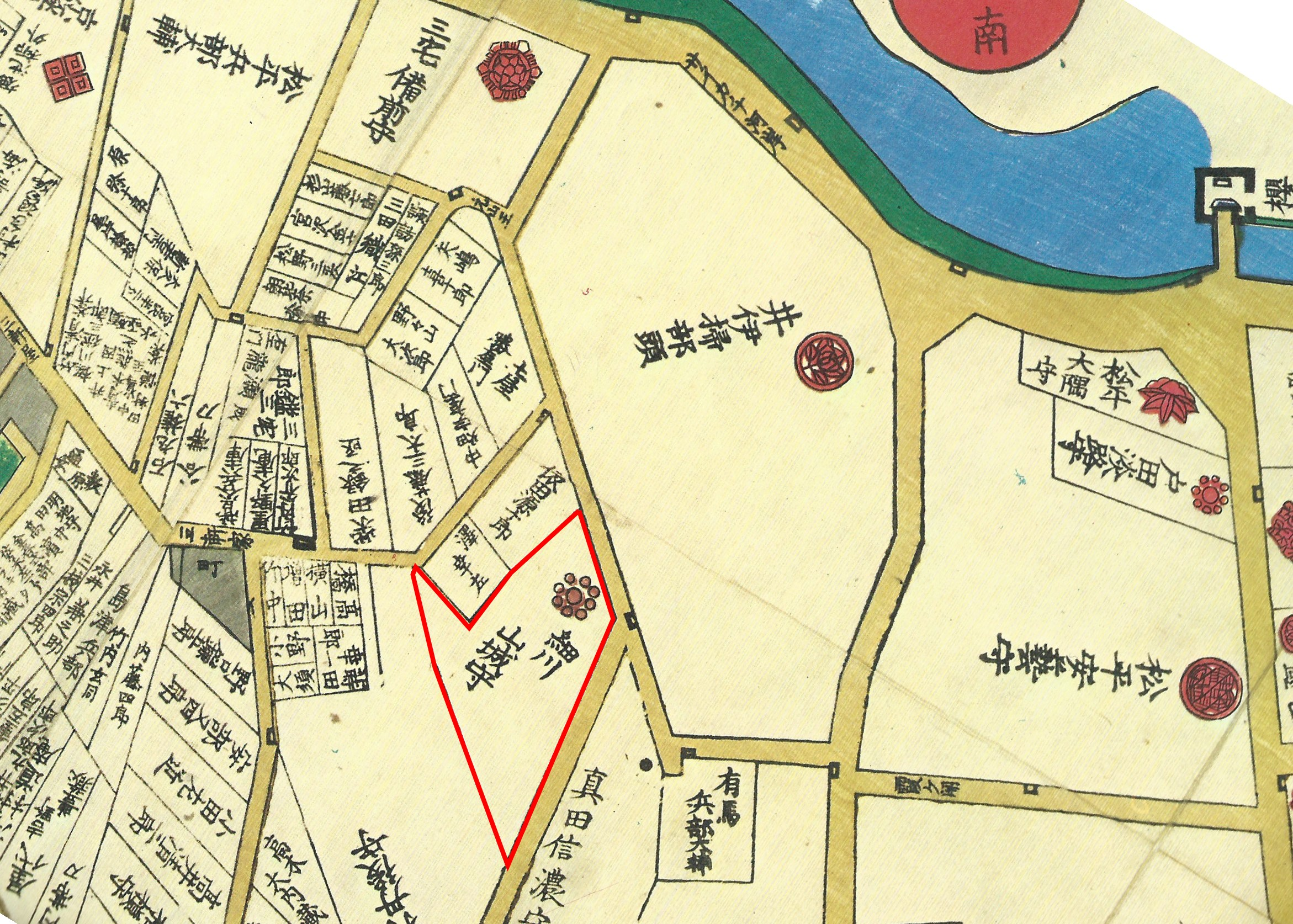 detail from kiri-ezu "Soto-sakurada"